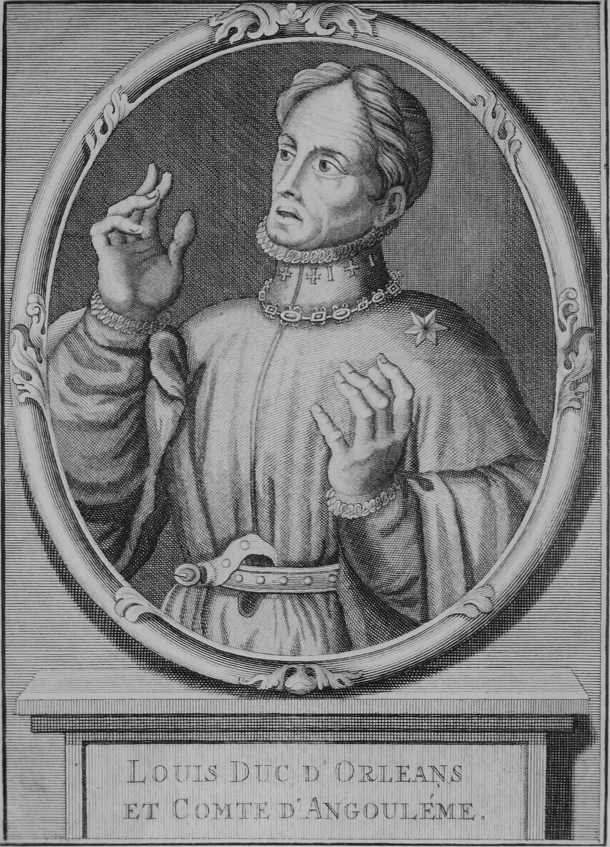 Portrait of Louis I, Duke of Orléans